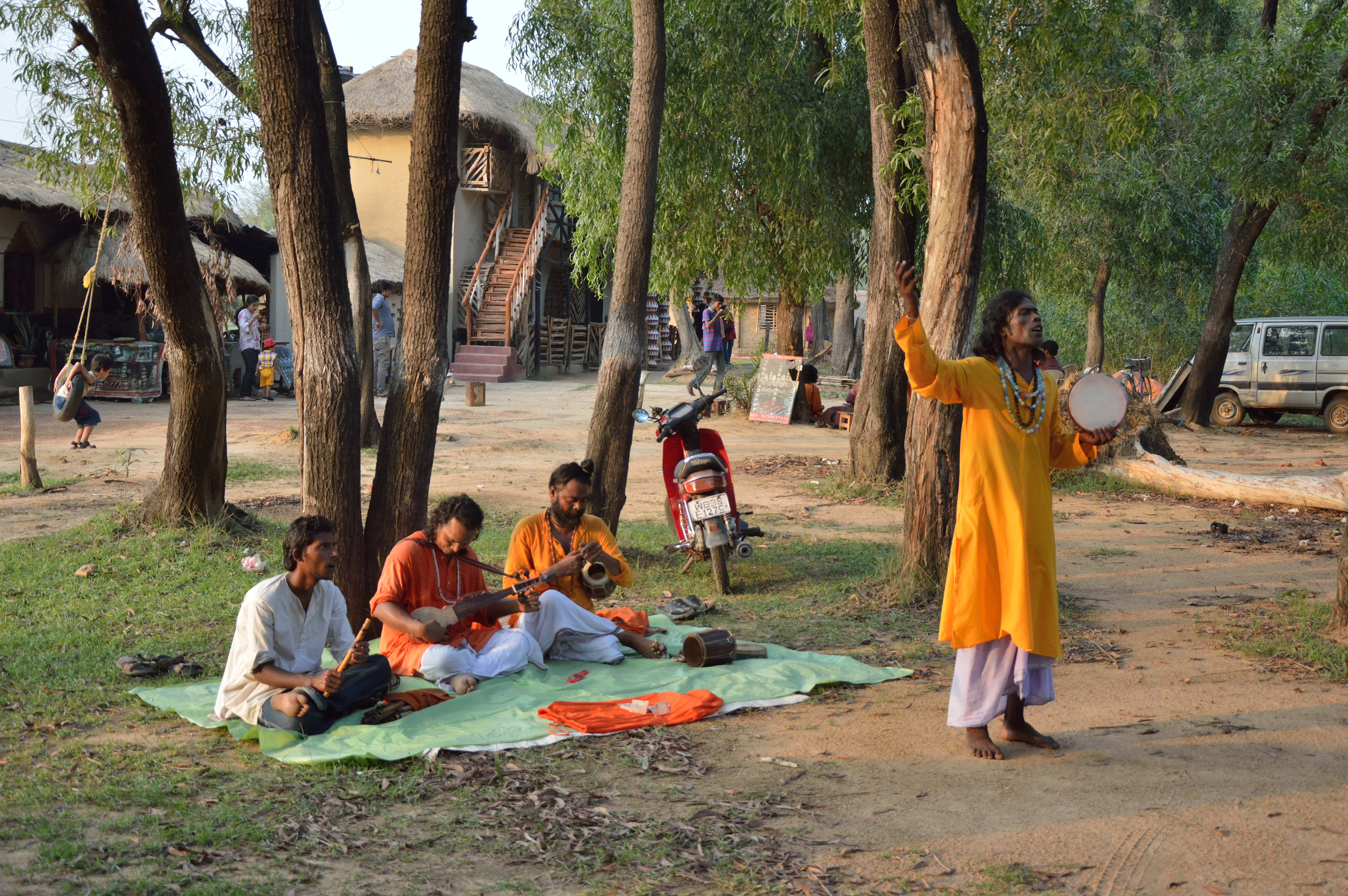 Photographed at the Sonajhuri-Khoai area. It is very near from Santiniketan and Prantik railway station, Birbhum. In every Saturday Haat ( bn: Sanibarer Haat) happen mainly with village people made ethnic decorative ornaments, house-hold materials and home-made sweets & snacks. The Baul songs are also performed by various Baul groups. The buyers are mainly come from Kolkata or other parts from West Bengal.